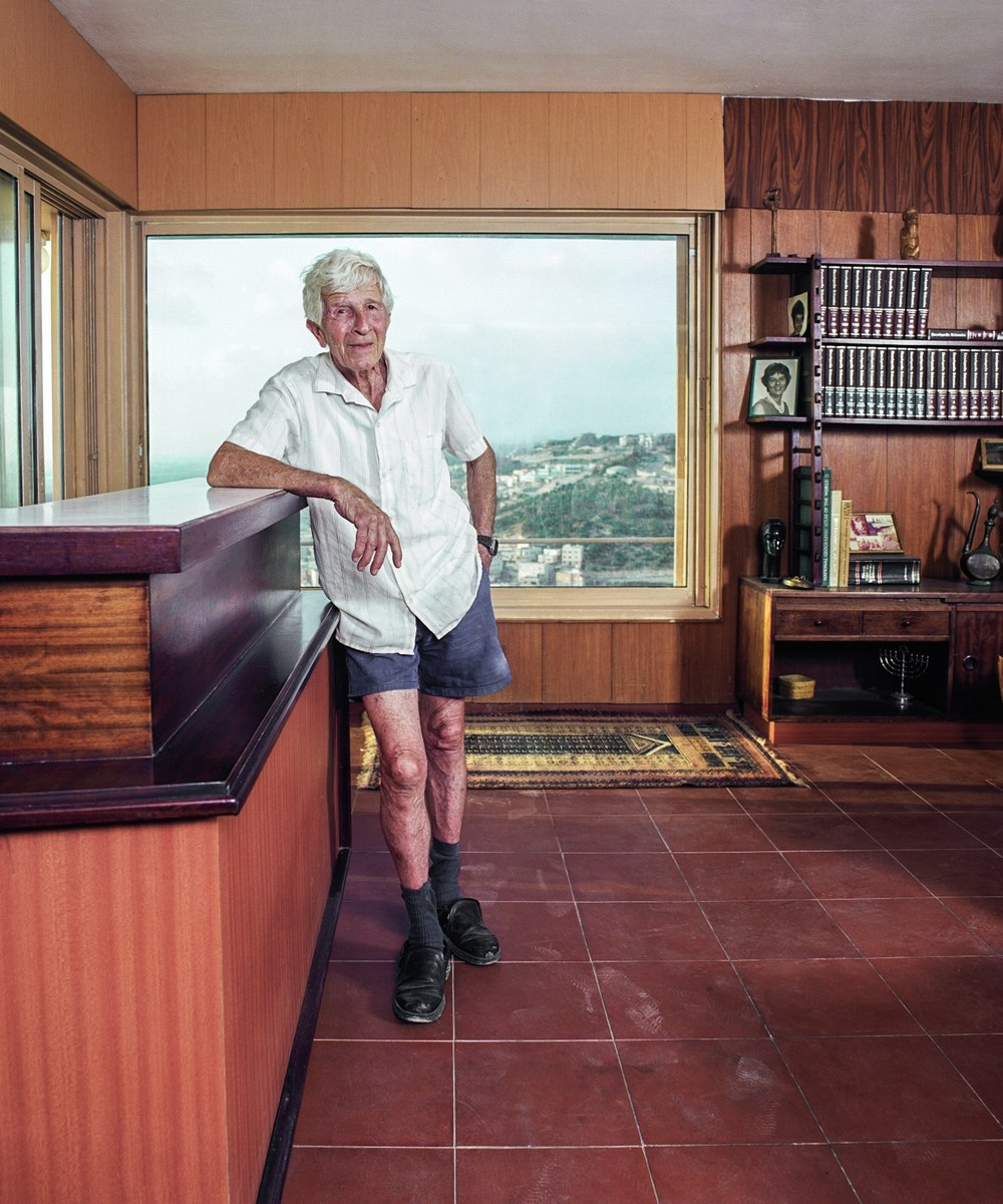 Art of Israel